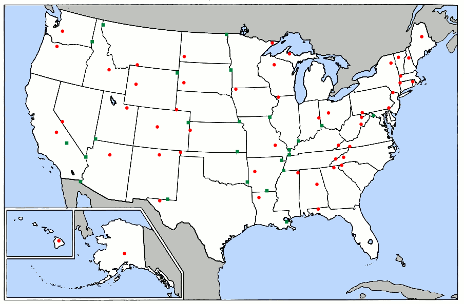 From United States blank state outline map used on wikipedia ( edited with gimp